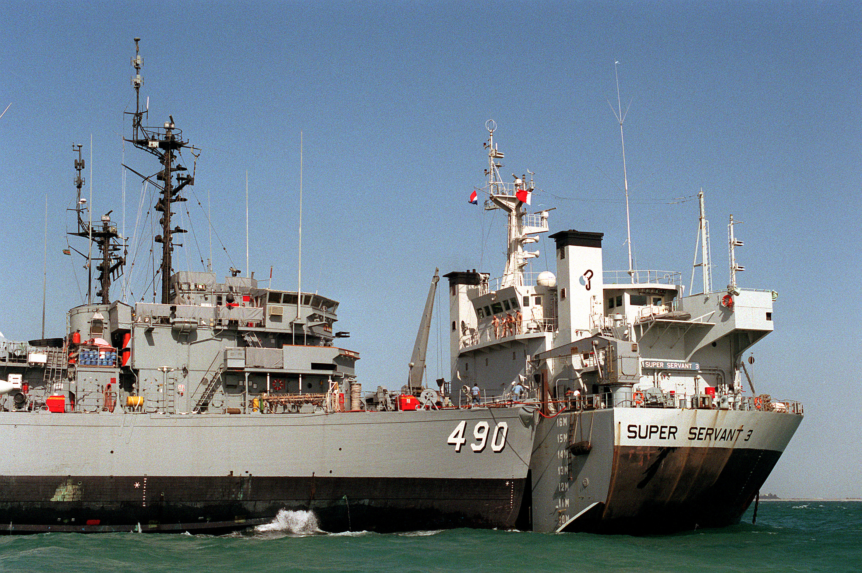 The ocean minesweeper USS LEADER (MSO-490) stands on the partially submerged deck of the Dutch heavy lift ship SUPER SERVANT 3 prior to offloading in support of Operation Desert Shield. Information about Super Servant 3 may be found at IMO 8025331. A ship can change her name and flag state through time, but the IMO number remains the same through the hull's entire lifetime. Therefore, it's useful to identify a ship through her IMO number.